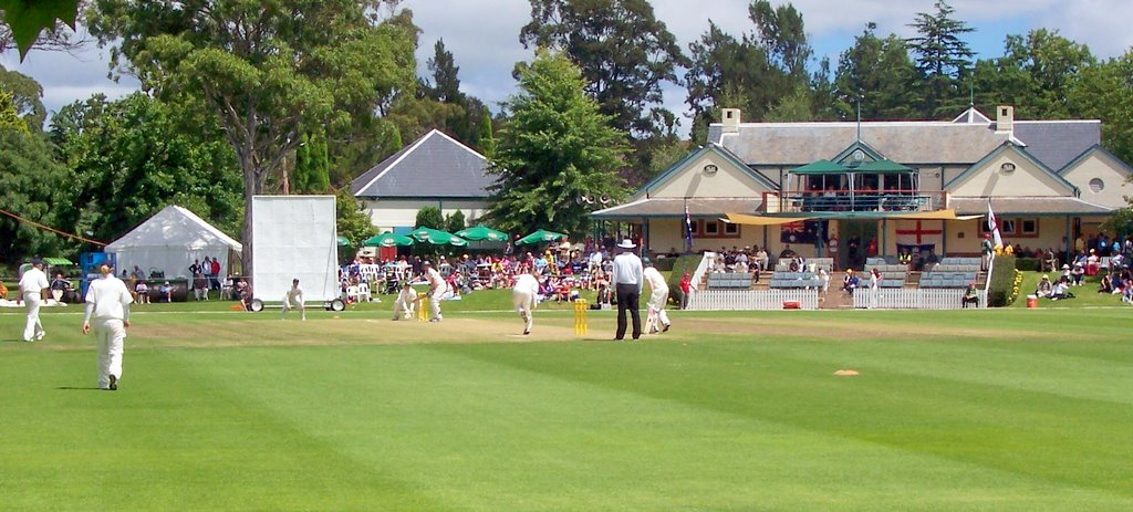 Bradman Oval Bowral, England versus Australia test match. Ellyse Perry batting, Paul Reiffel - umpire.